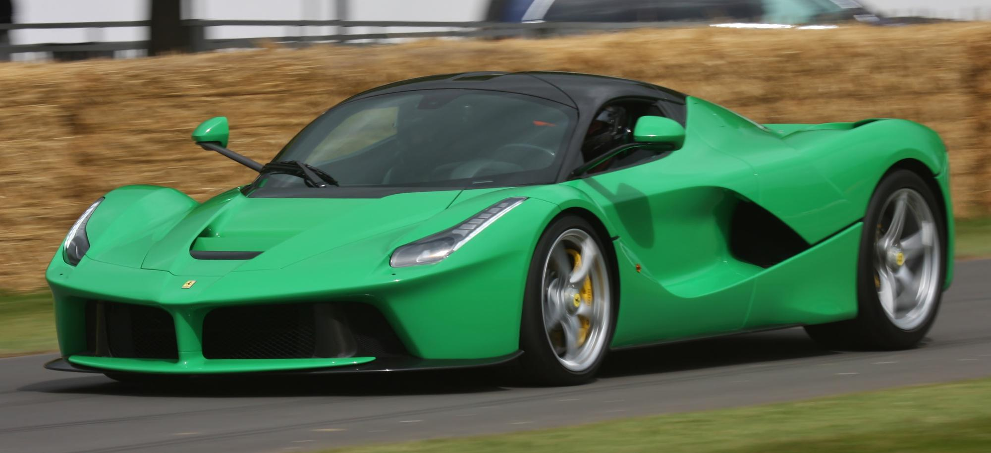 Jay Kay of Jamiroquai driving his green LaFerrari at the 2014 Goodwood Festival of Speed.